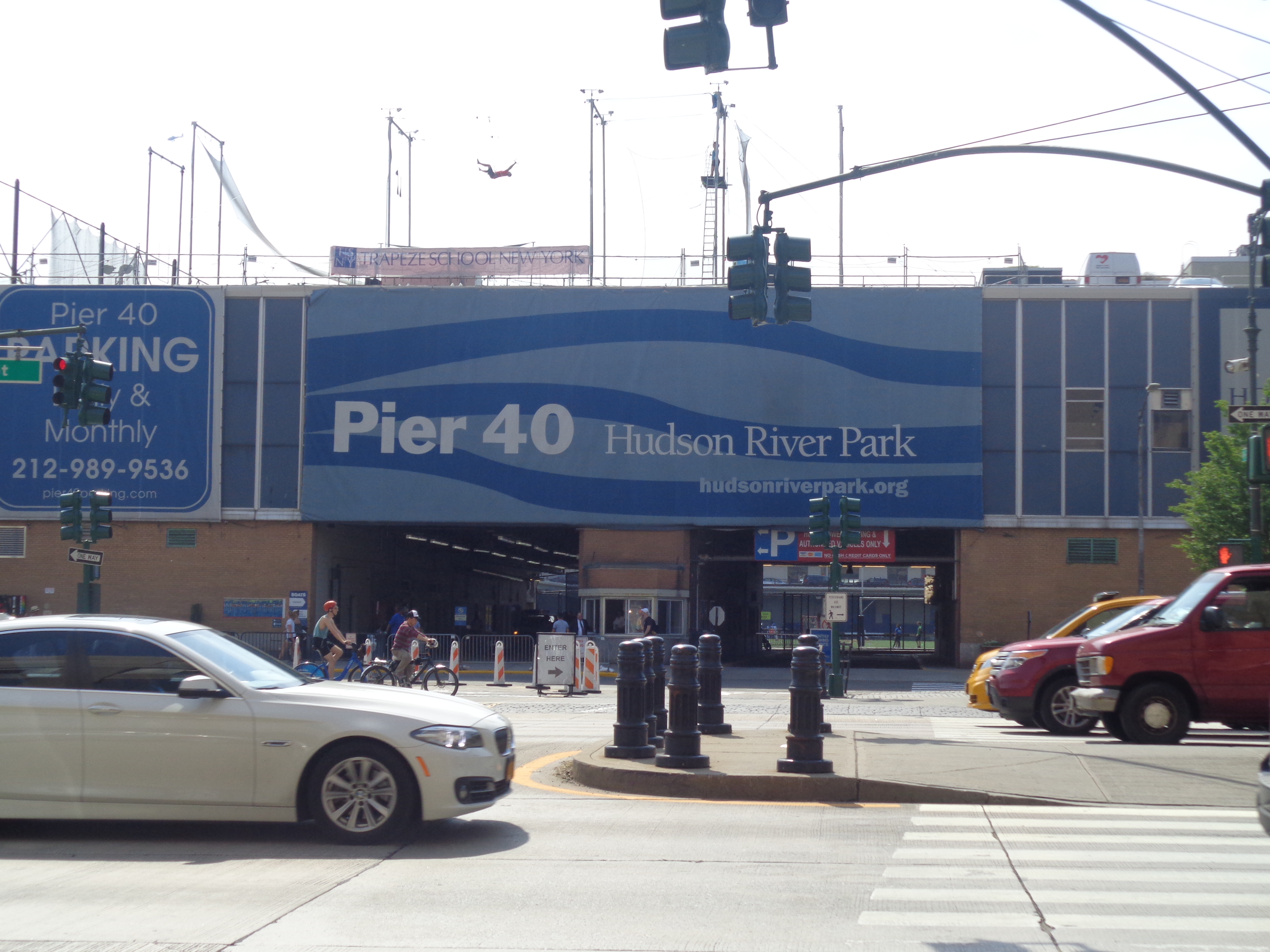 Looking west at the front of Pier 40 from across West Street in Greenwich Village, Manhattan.